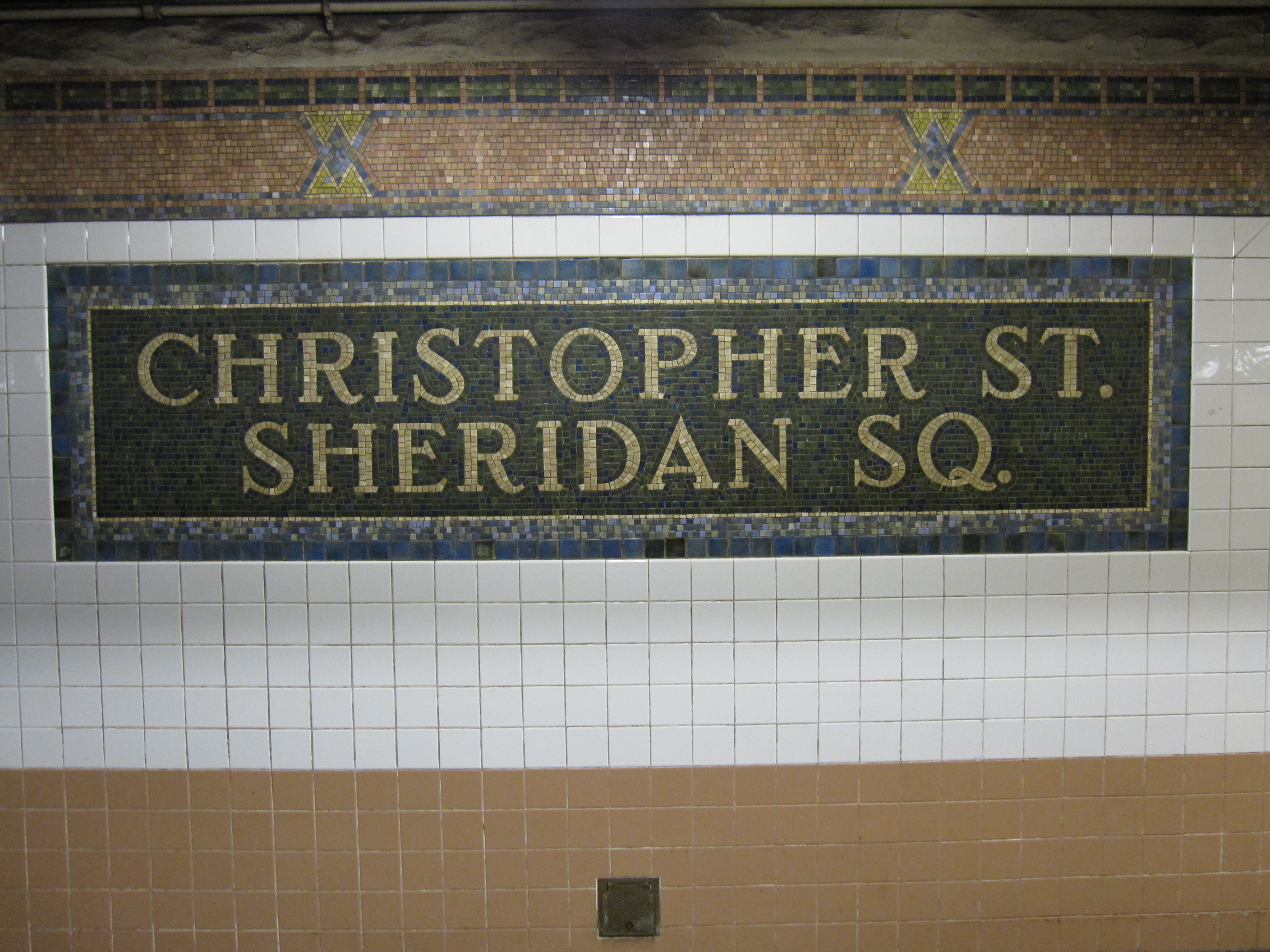 Christopher Street – Sheridan Square (IRT Broadway – Seventh Avenue Line)